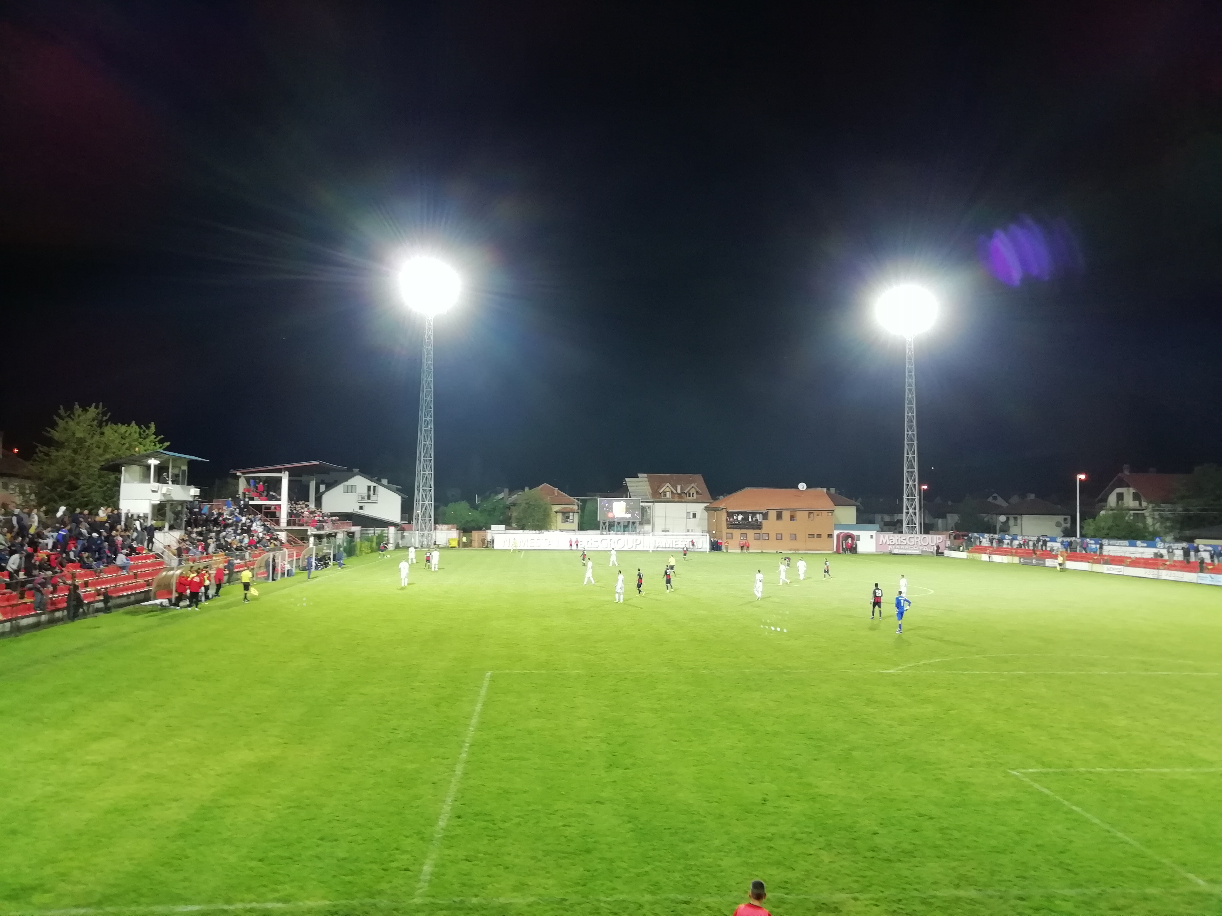 View from South Stand of Ivanjica Stadium, April 2019